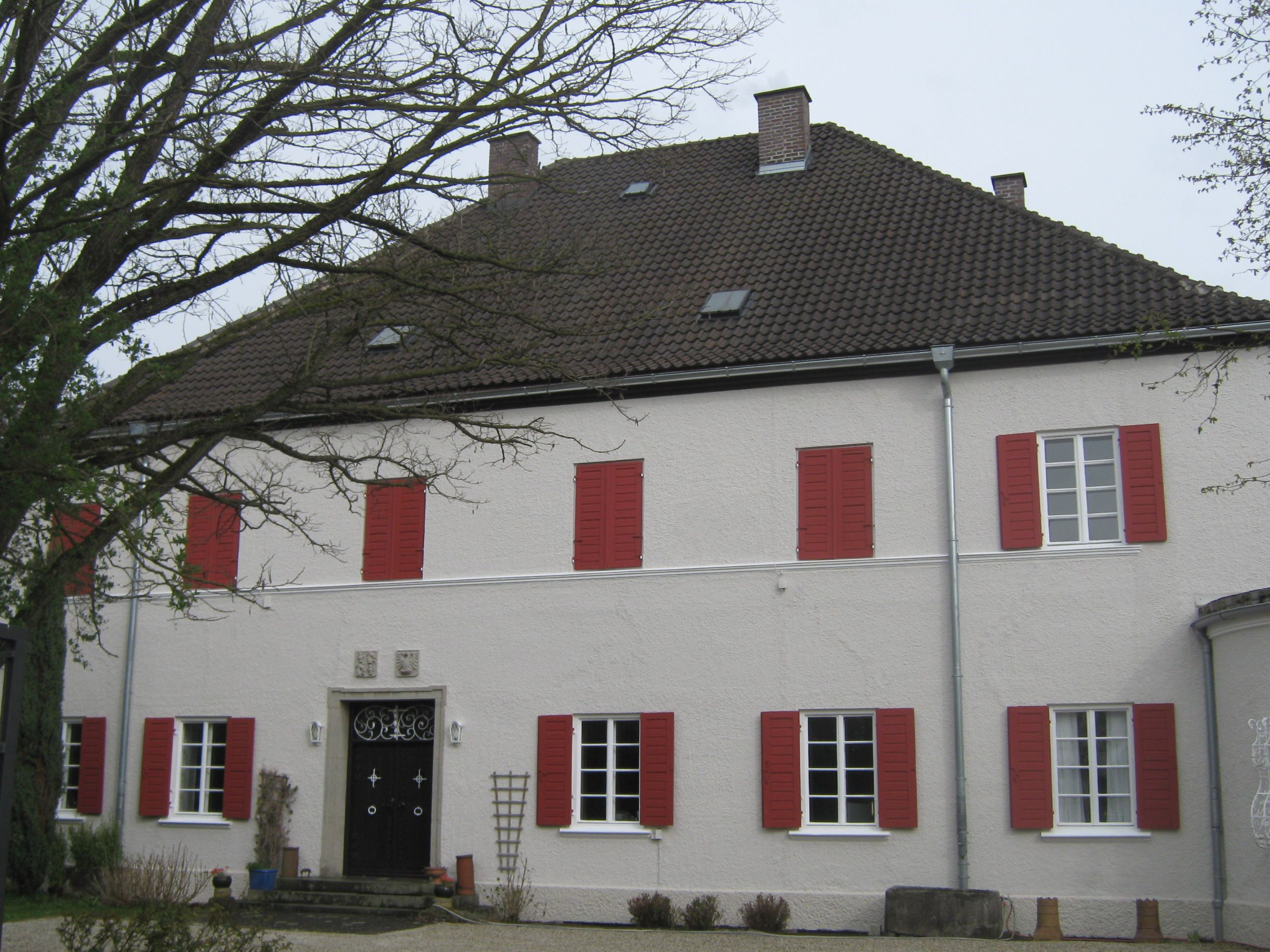 This is a picture of the Bavarian Baudenkmal (cultural heritage monument) with the ID D-2-79-112-105 Castle of Schermau, medieval Hofmark of Kloster Niederaltaich, former municipality of Frauenbiburg, currently part of city of Dingolfing, Lower Bavaria. View from main entrance northwest.